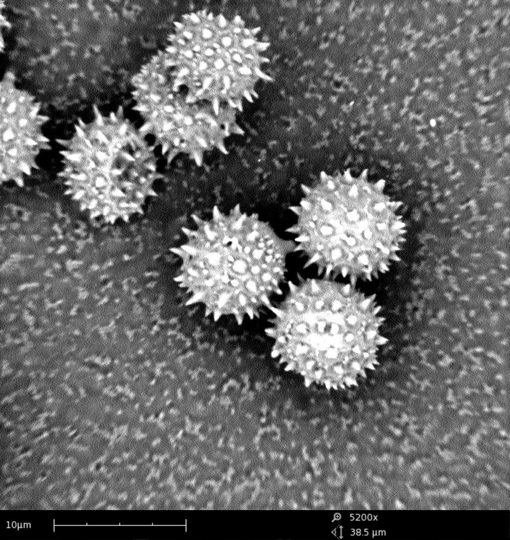 Electronmiscrope image of spores of the mushroom amethyst deceiver (Laccaria amethystina), 5200 x magnified